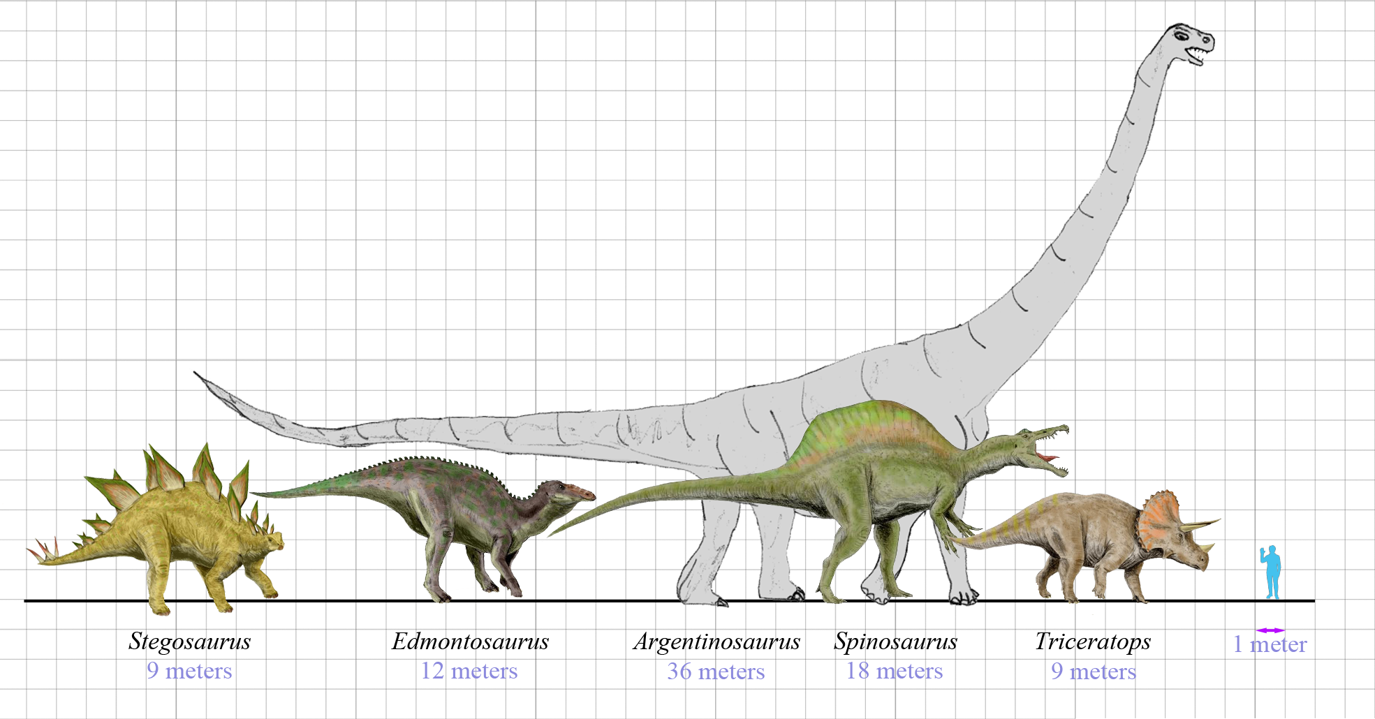 Comparison of Dinosaurs size (scale diagram), featuring Argentinosaurus (36 meters), Spinosaurus (18 meters), Edmontosaurus (12 meters), Stegosaurus (10 meters) and Triceratops (9 meters). Based on drawings by Nobu Tamura ( , , , ) and Zachi Evenor .